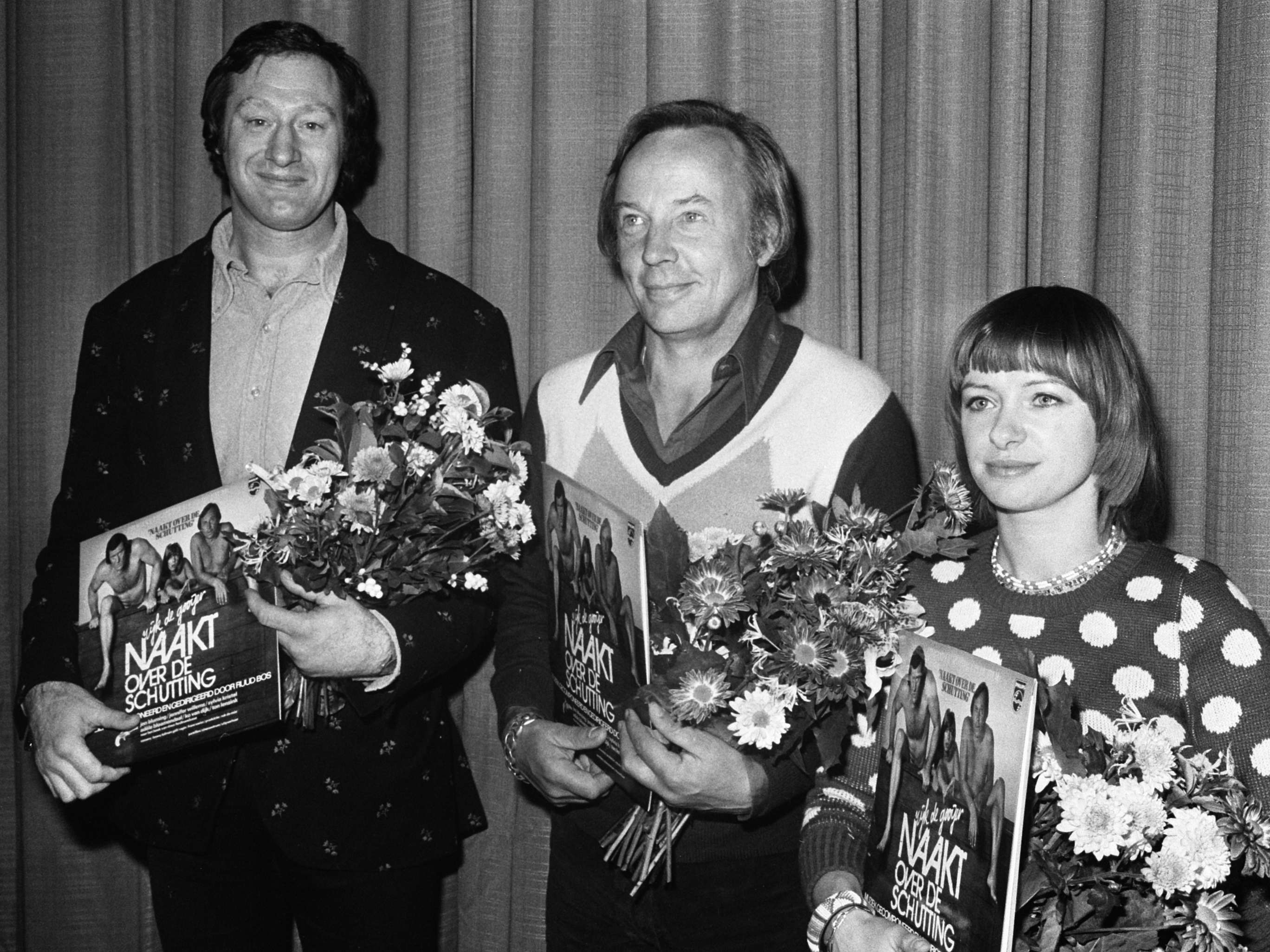 Jon Bluming, Rijk de Gooyer en Jennifer Willems bij de première van Naakt over de schutting 24 oktober 1973